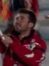 Erjon Tola, alpine skier from Albania at 2010 Olympics